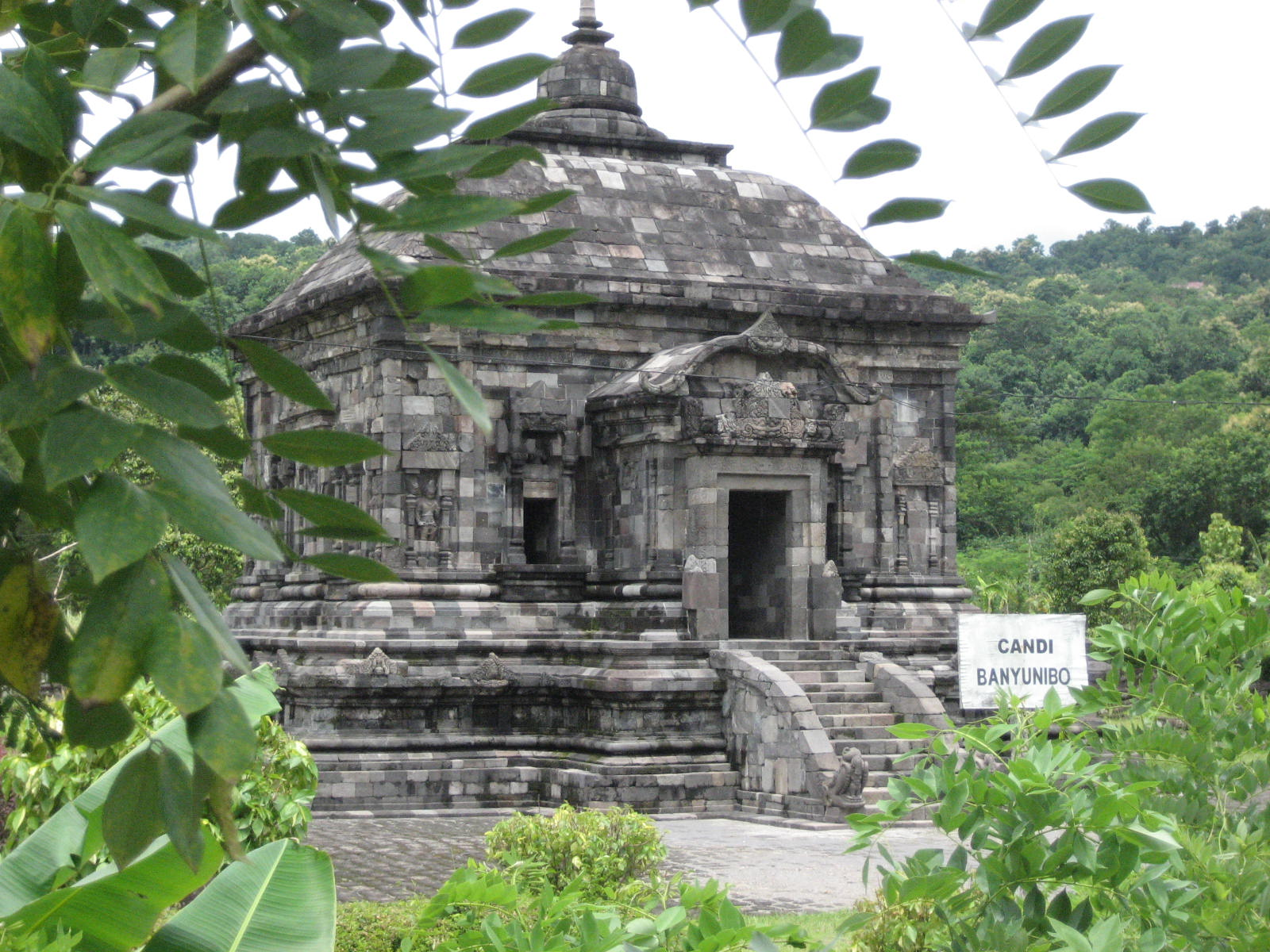 Candi Banyunibo (Buddhist temple) in central Java, Yogyakarta